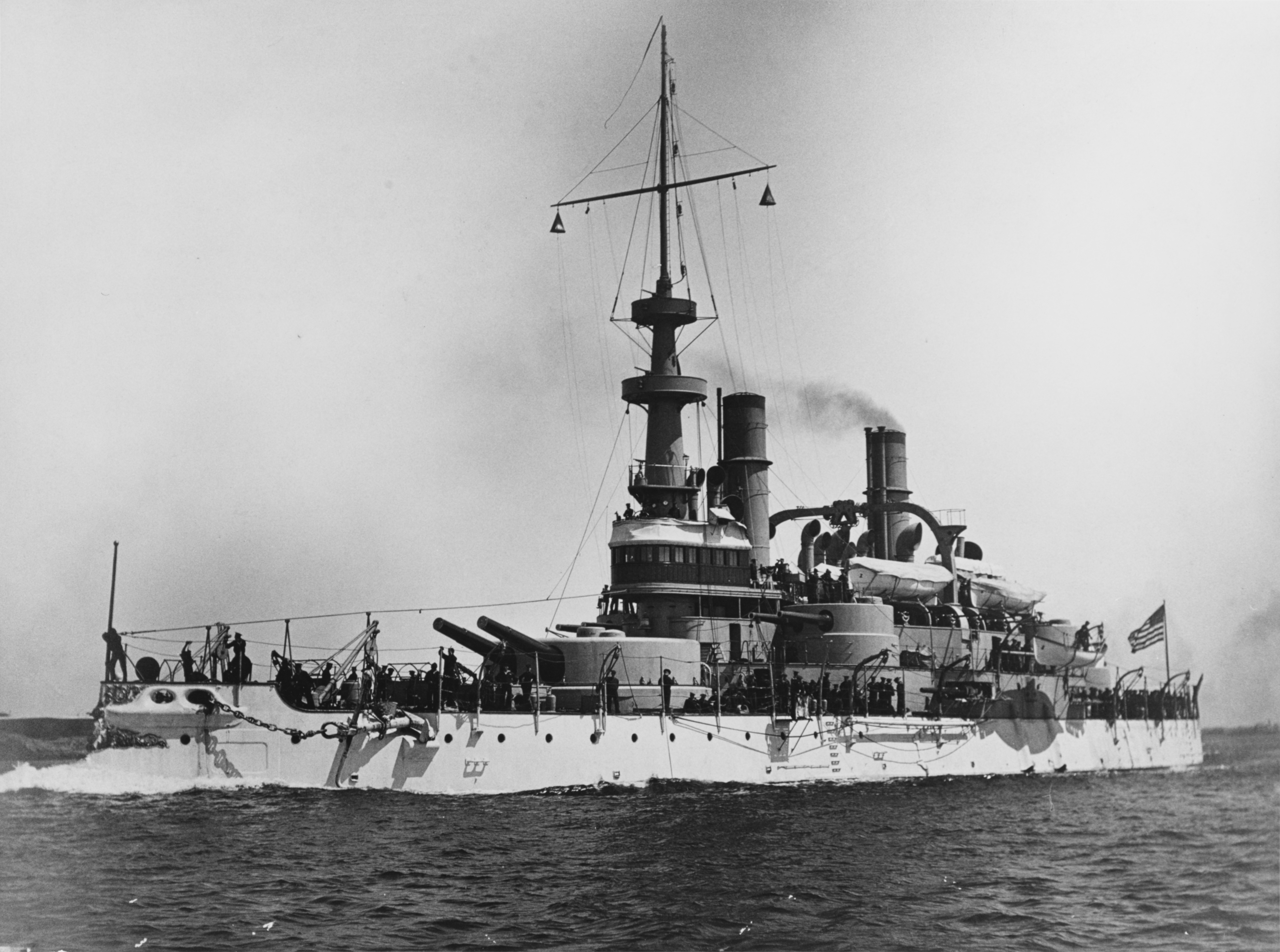 Undated photograph, probably taken circa 1895-1900. Courtesy of the Naval Historical Foundation U.S. Naval History and Heritage Command Photograph.